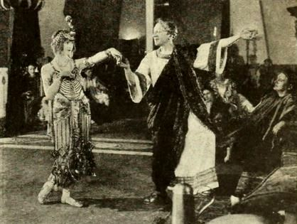 Still from the American film Polly of the Follies (1922) with Constance Talmadge and John Daly Murphy (1873 – 1934), on page 61 of the May 1922 Photoplay.